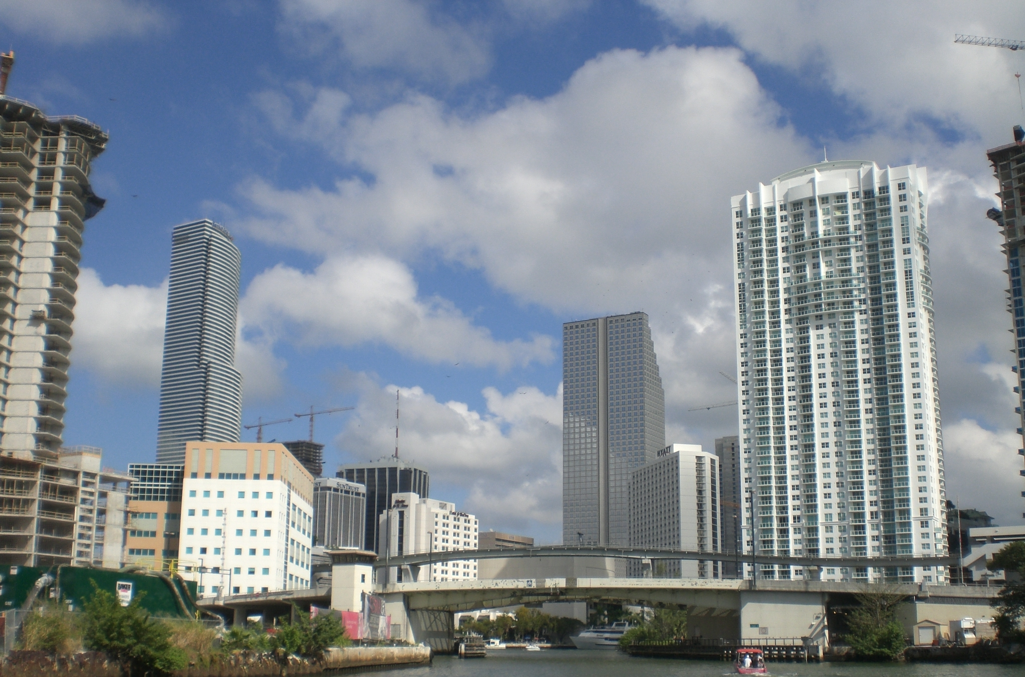 On the Miami River in downtown Miami, Florida. 1/20/07.